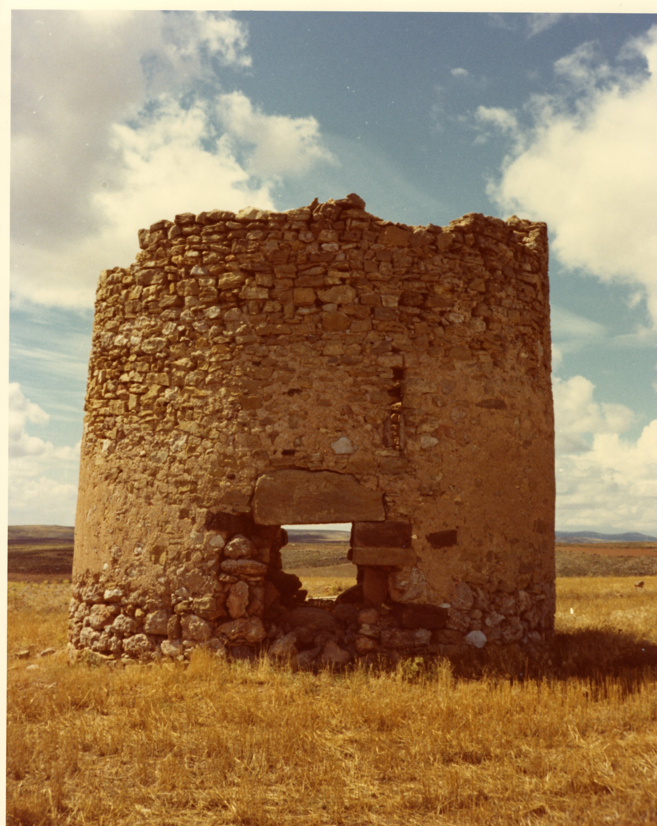 Malanquilla windmill in ruins